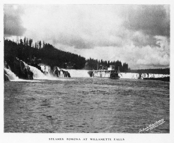 Sternwheeler Pomona at Willamette Falls, 1901 or earlier.